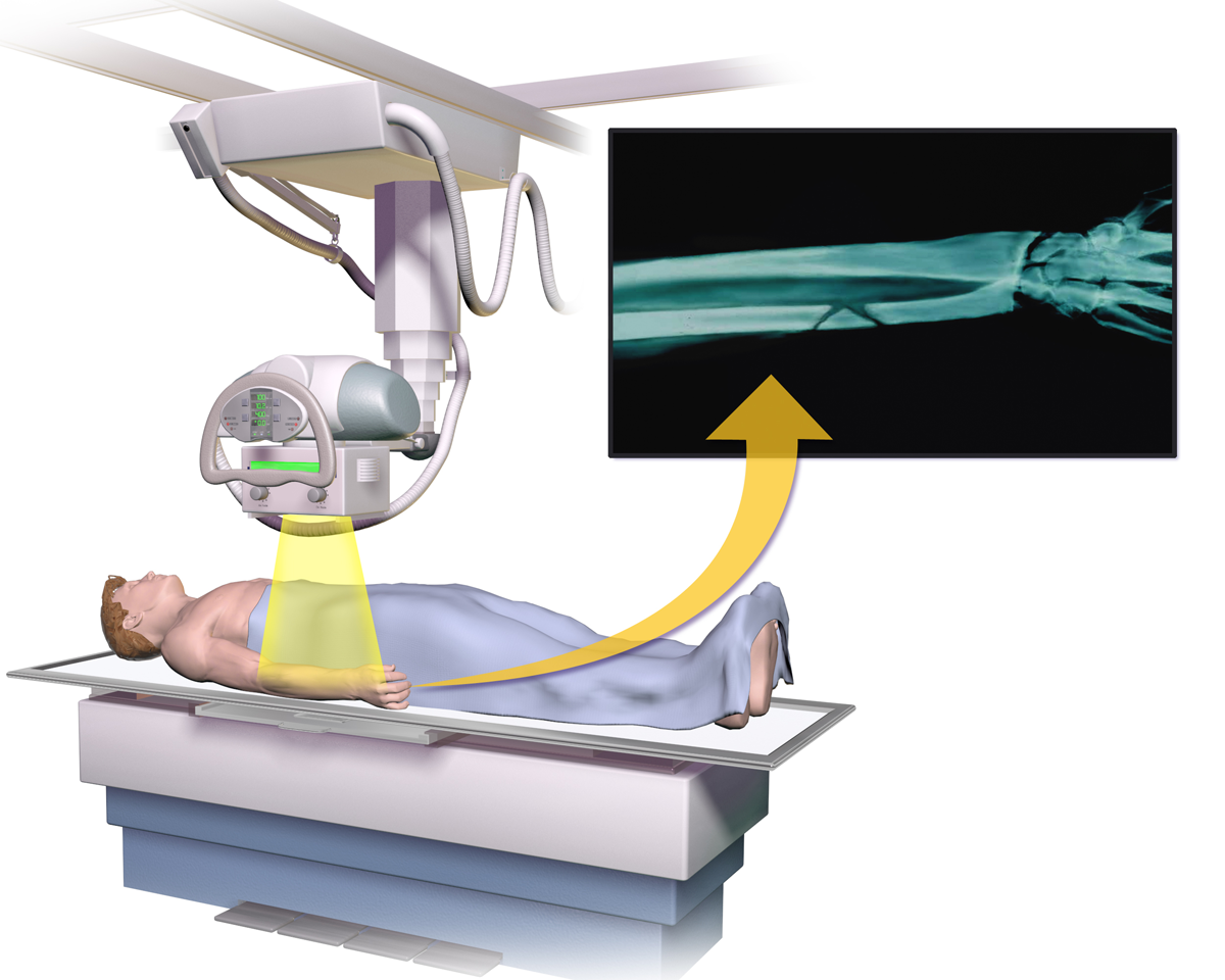 X-ray. See a full animation of this medical topic.